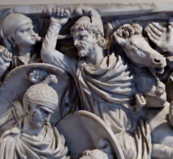 So-called “Grande Ludovisi” sarcophagus, with battle scene between Roman soldiers and Germans. The main character is probably Hostilian, Emperor Decius' son (d. 251 CE). Proconnesus marble, Roman artwork, ca. 251/252 CE.